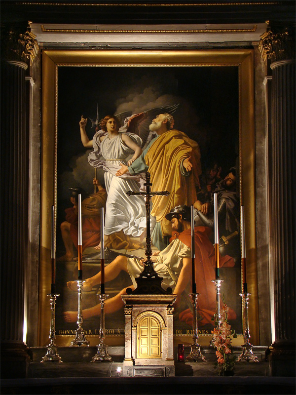 Rennes Cathedral, Ille-et-Vilaine, Bretagne, France. The Deliverance of Saint Peter, a work by the painter Le Forestier (1828), in the south arm of the transept.